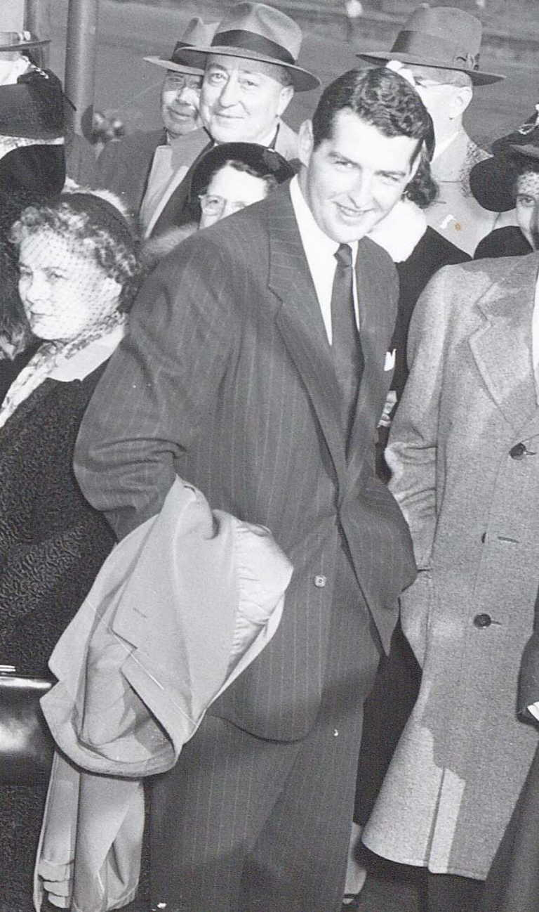 At launch of SS San Tome